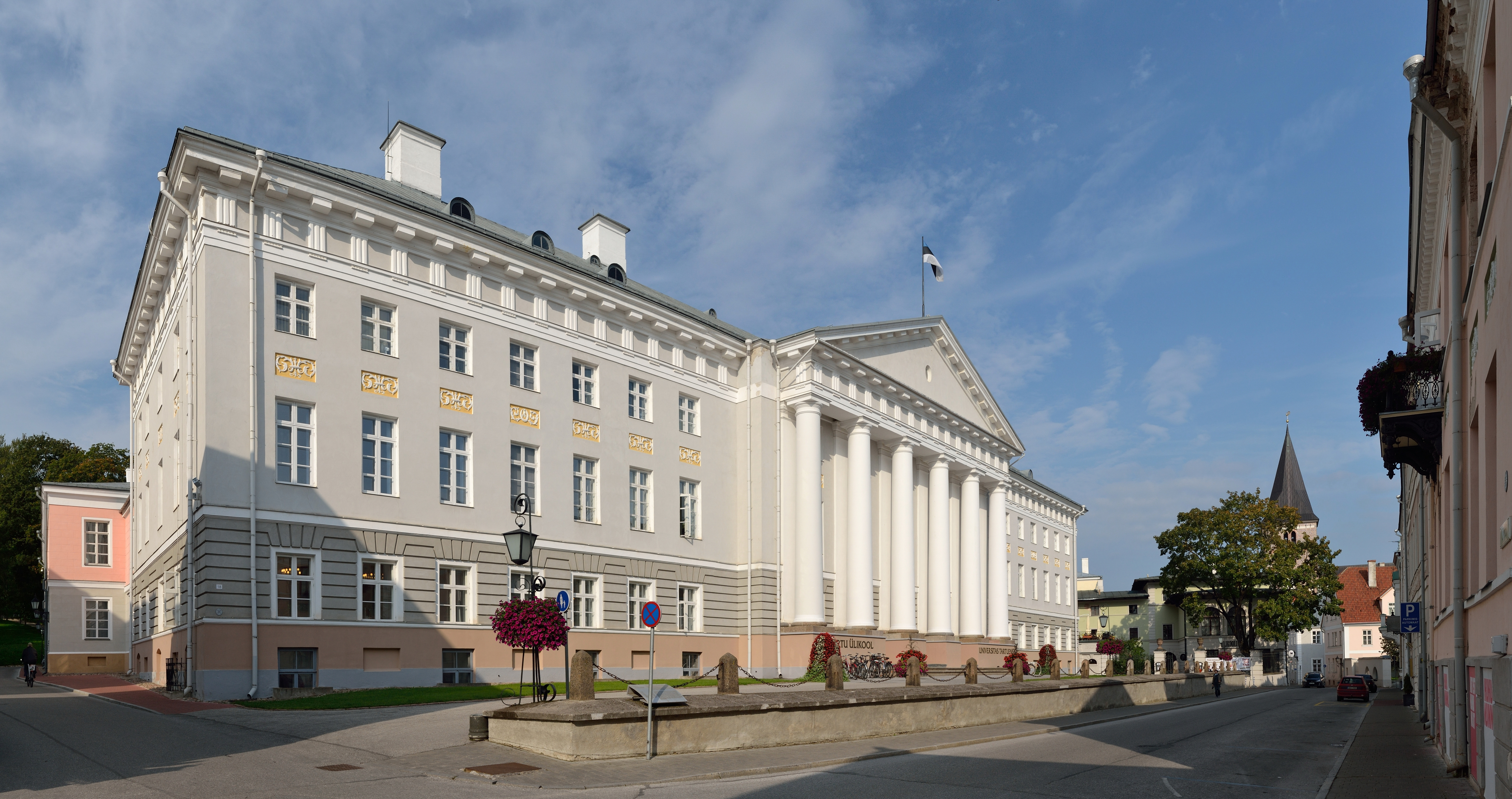 Main building of the University of Tartu, built in 1802-1809